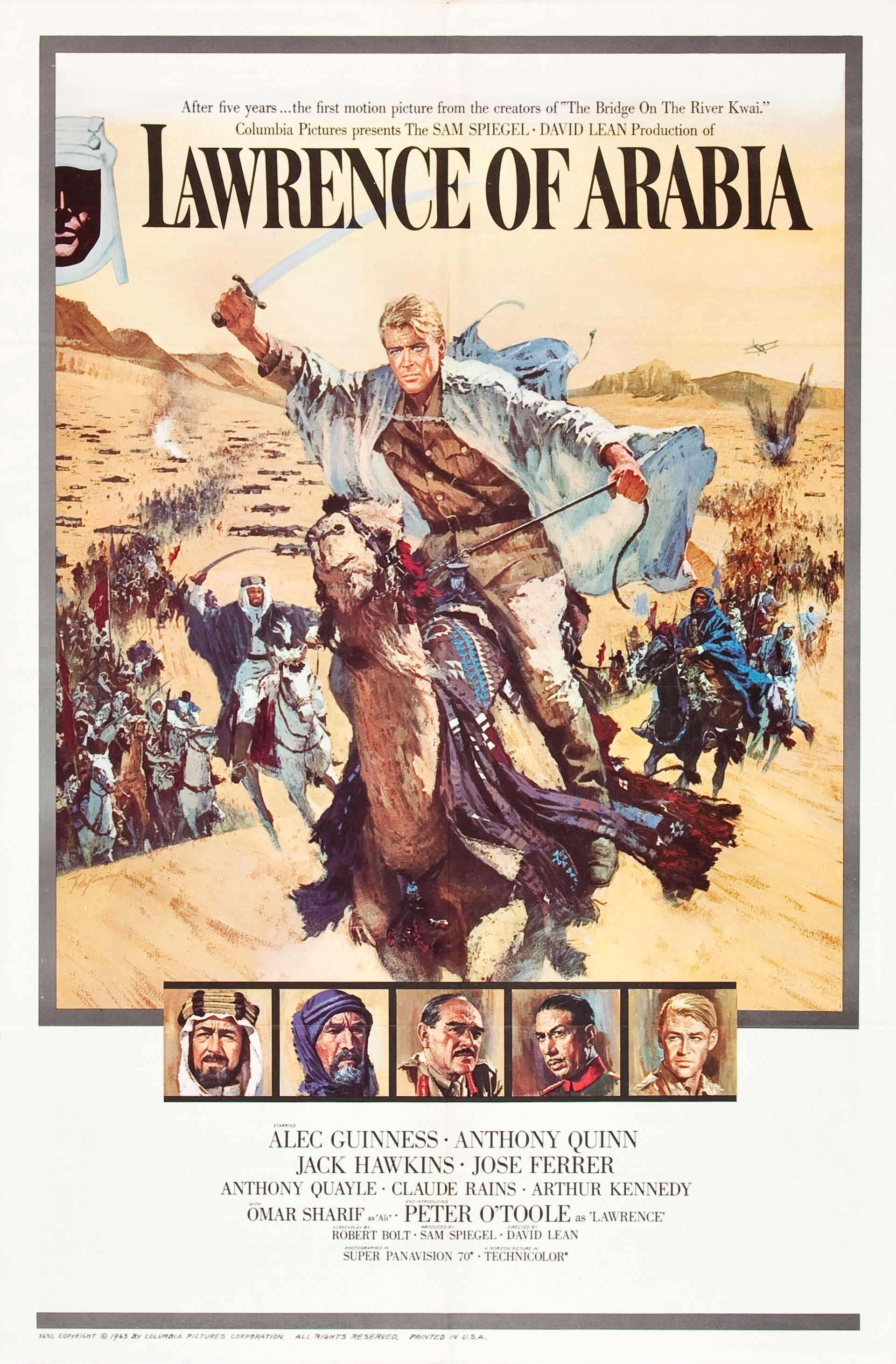 Theatrical poster for the film Lawrence of Arabia (1963)